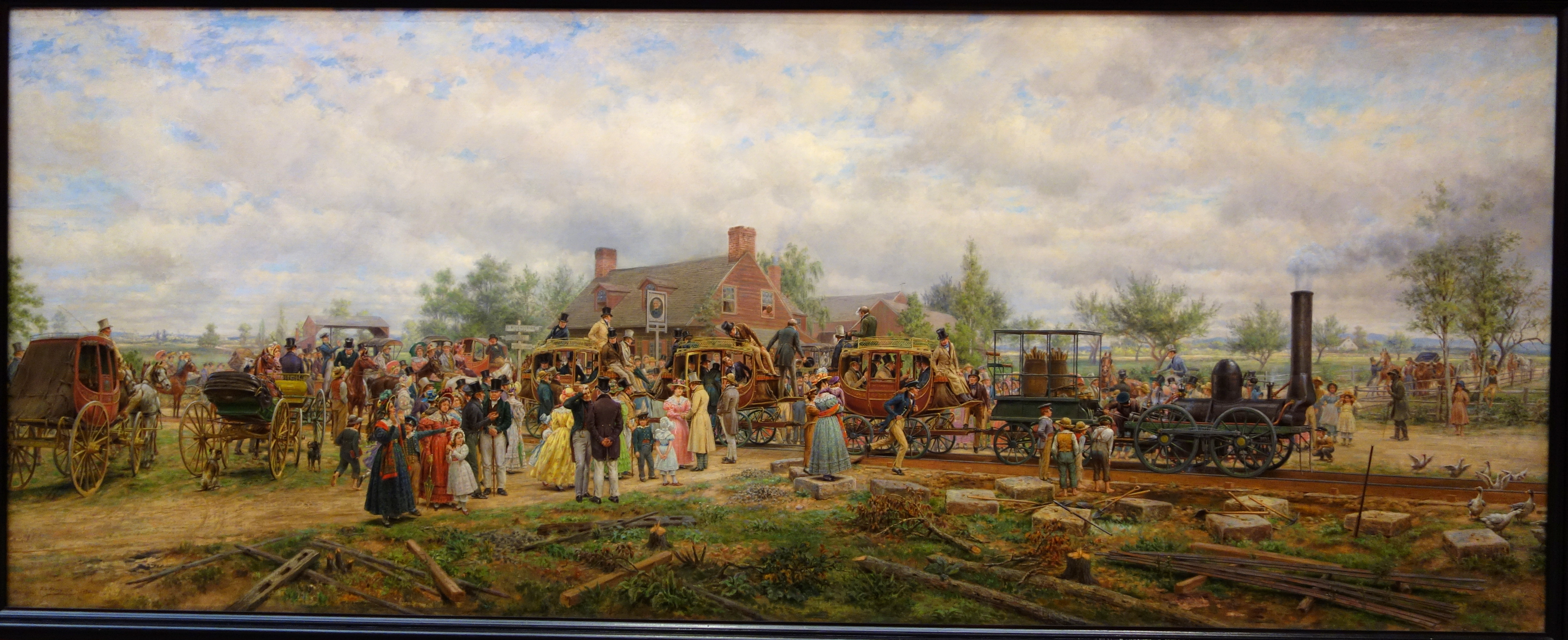 Exhibit in the Albany Institute of History and Art, Albany, New York, USA. This artwork is in the public domain because the artist died more than 70 years ago.